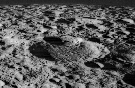 Oblique view of Larmor, on the far side of the moon. North at top.